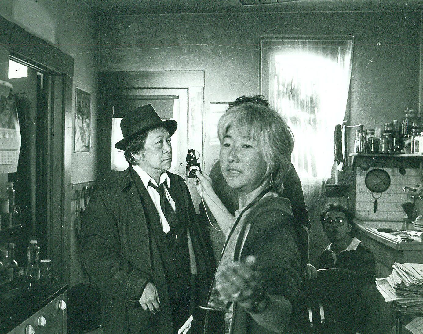 Cinematographer and film director Emiko Omori takes a light reading off actor Victor Wong's face on location in Wayne Wang's 1983 film, Dim Sum A Little Bit of Heart in San Francisco, California, 1983. Assistant director Chris Lee is at right. Photograph by Nancy Wong